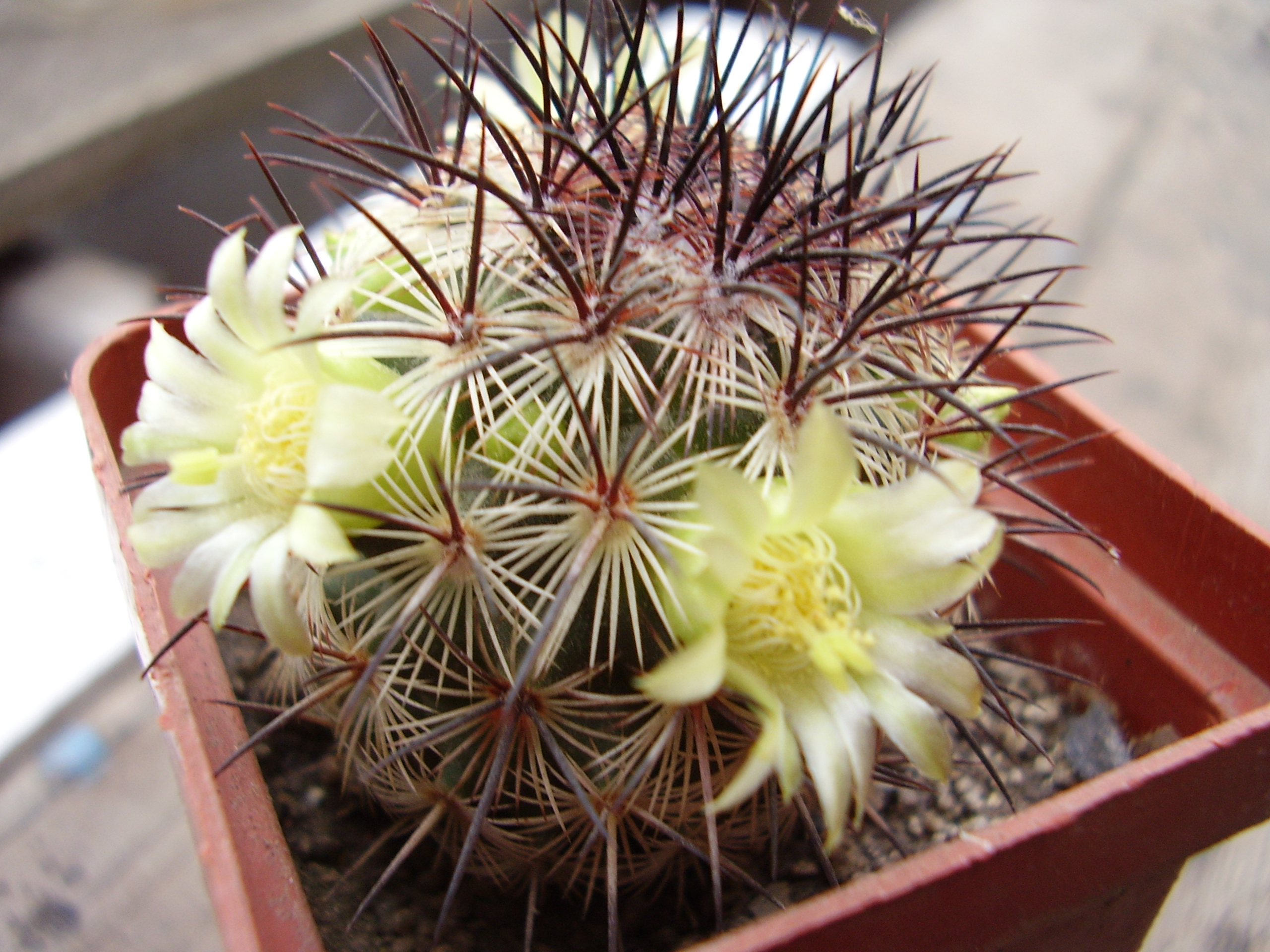 Mammillaria drogeana from collection of Yuriy Shostak, Mykolaiv, Ukraine